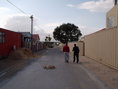 Township, Cape Town, Khayelitsha, quiet road